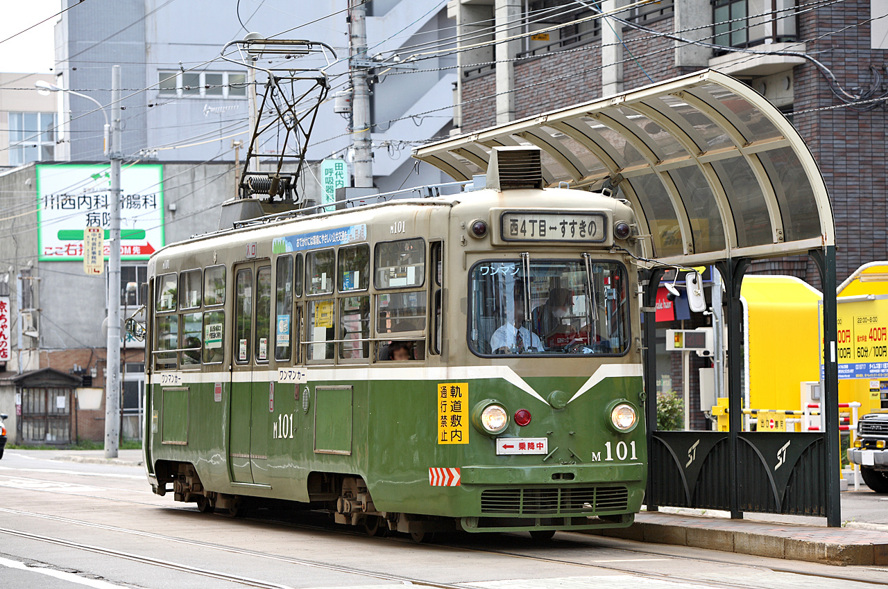 Sapporo City Transportation Bureau Type M100 Tram at Nakajima koen dori Station